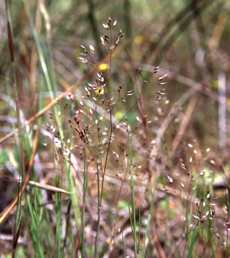 Aira caryophyllea — Silver hairgrass (bunchgrass). Invasive plant species at the Humboldt Bay National Wildlife Refuge, Humboldt County, coastal Northern California.